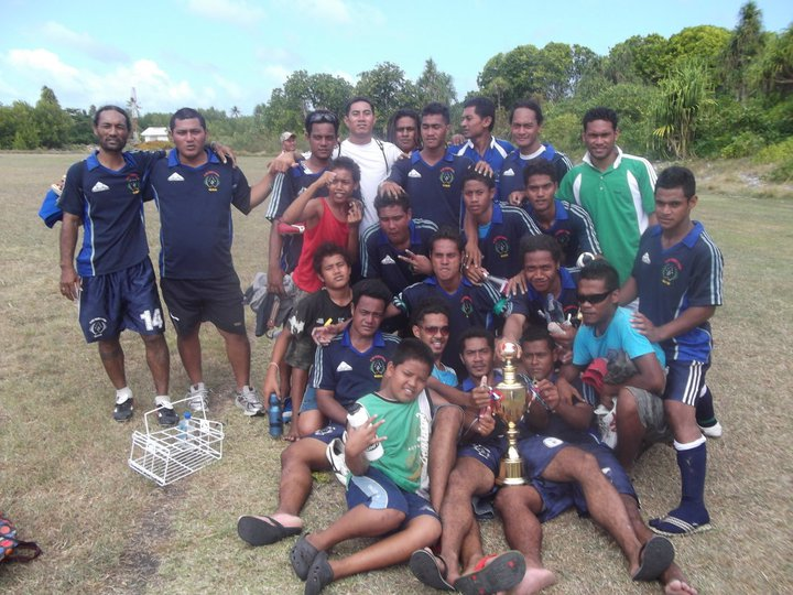 Tofaga